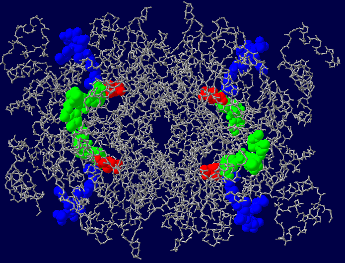 Structure of hydroxymethylglutaryl-CoA reductase. Generated w/ Deepview using PDB 1DQA Blue: Coenzyme A Red: 3-hydroxy-3-methyl-glutaric acid Green: NADP